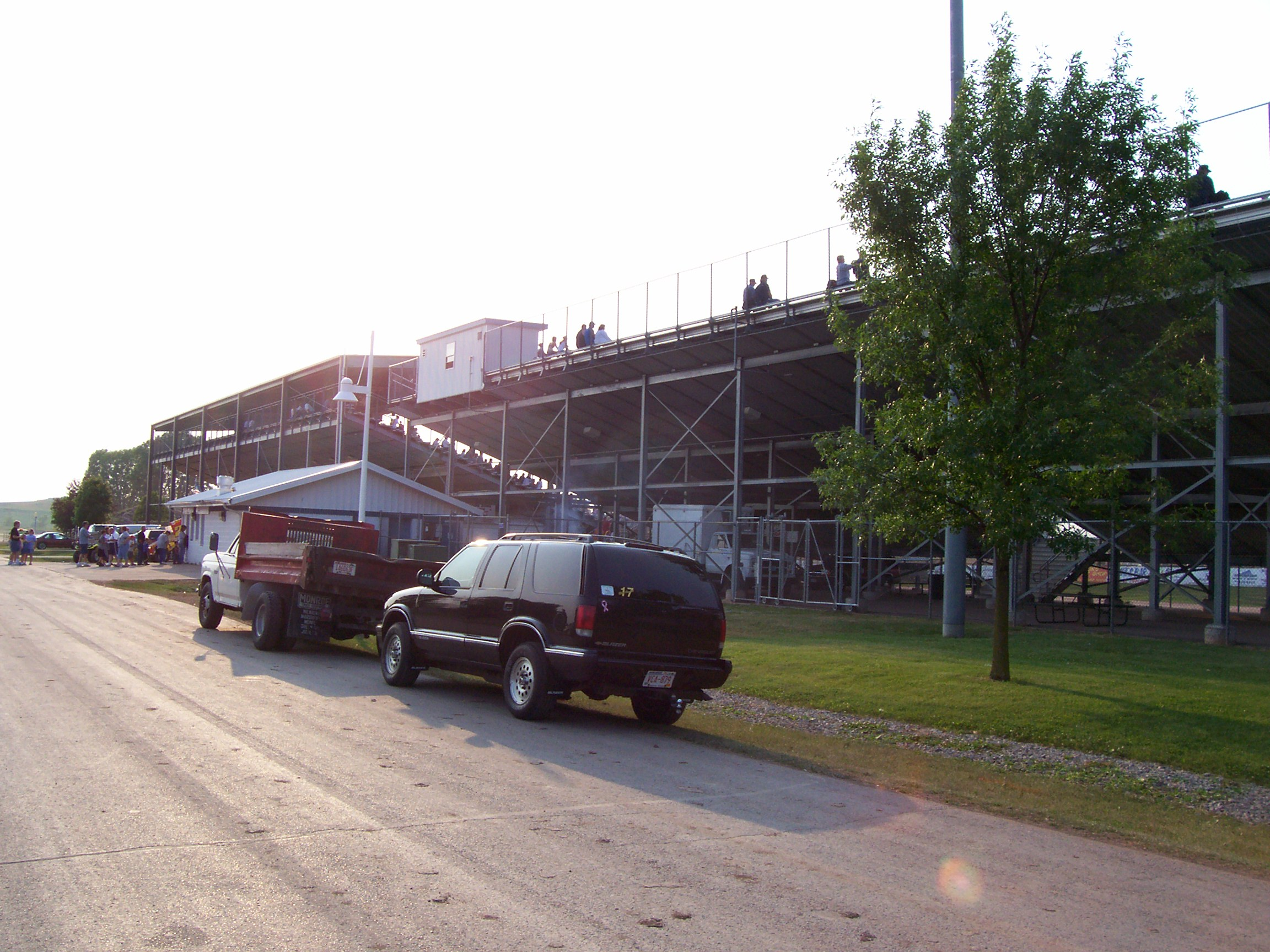 Winnebago County Fairgrounds (Sunnyview Expo) in Oshkosh, Wisconsin, USA, taken June 30 en:2006 by myself. The grounds are used for stock car racing and the Christian music festival called Lifest.